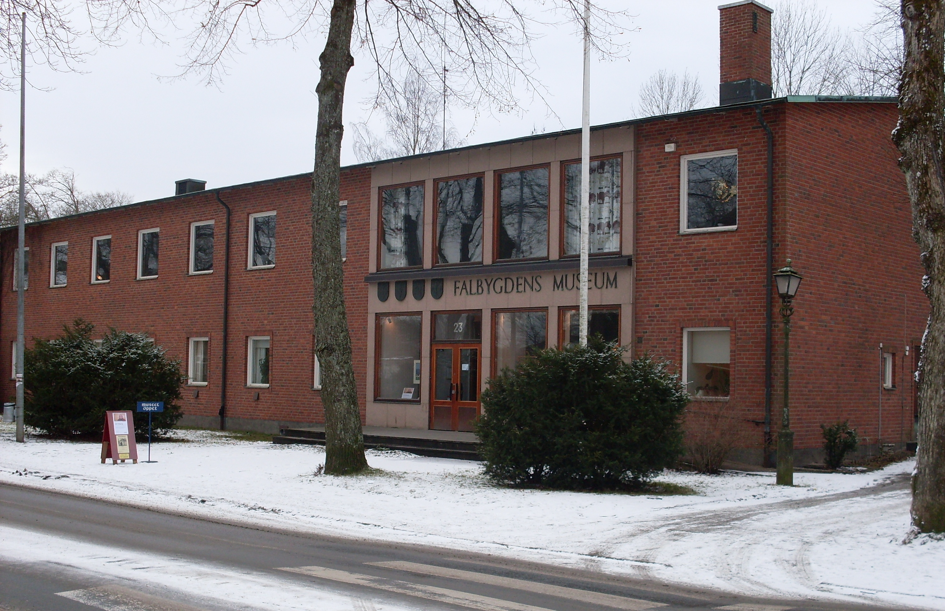 Falbygdens museum, Falköping, Västergötland, Sweden